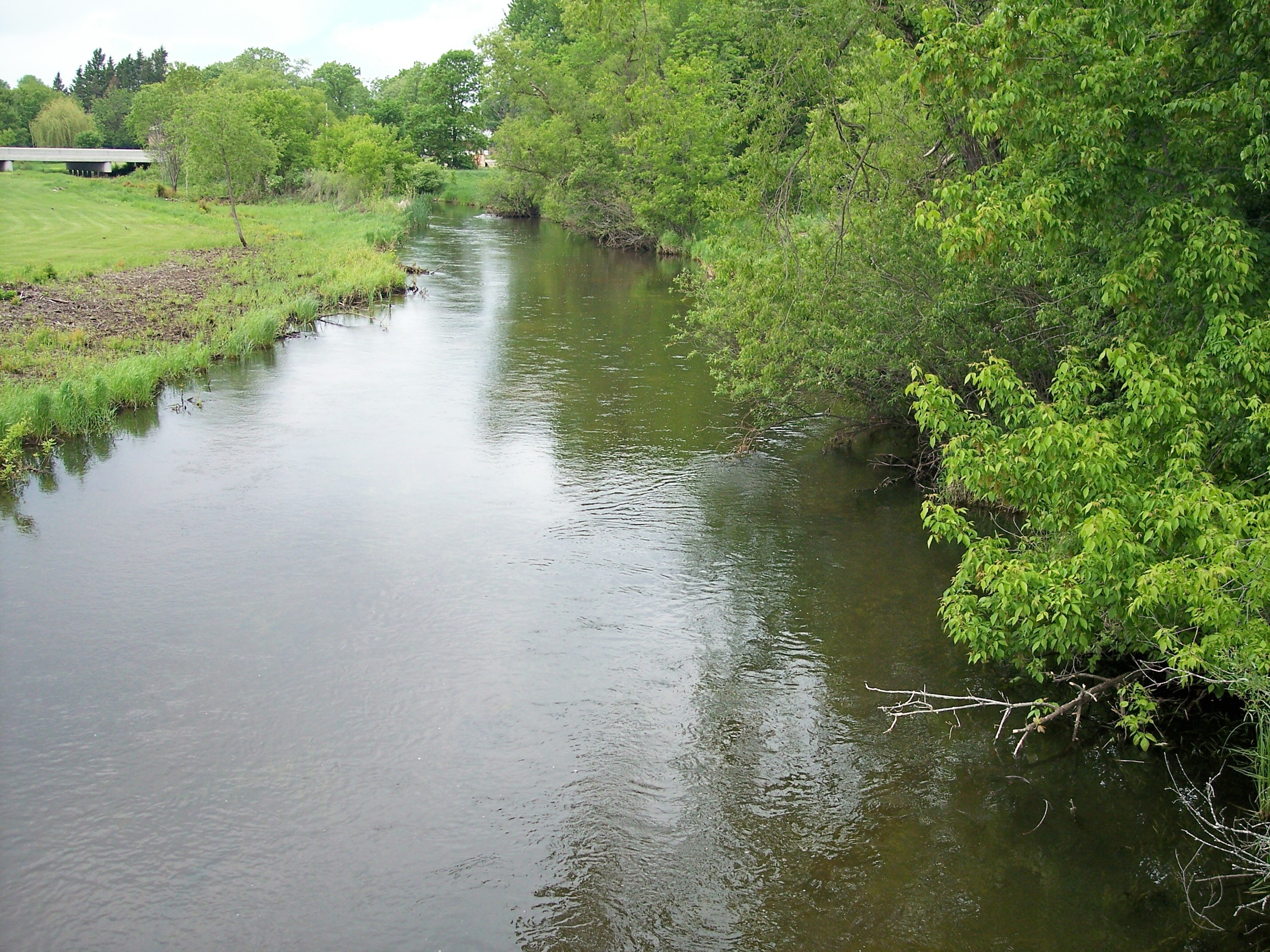 The Redeye River as viewed upstream from a pedestrian bridge in a park in Sebeka, Minnesota. A bridge on U.S. Route 71 is visible in upper left.